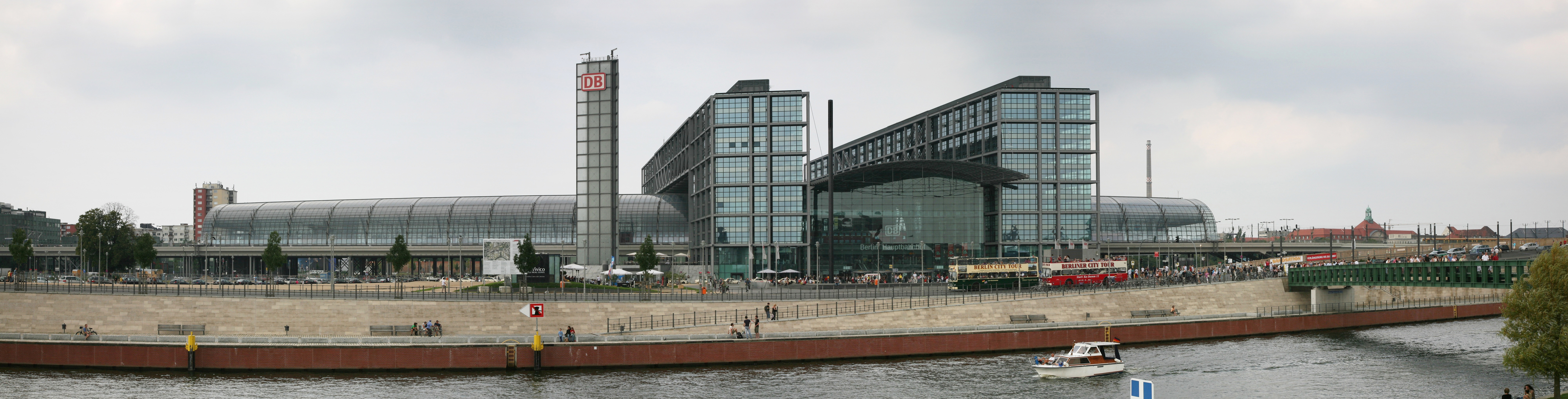 Berlin Main Station on the Spree river